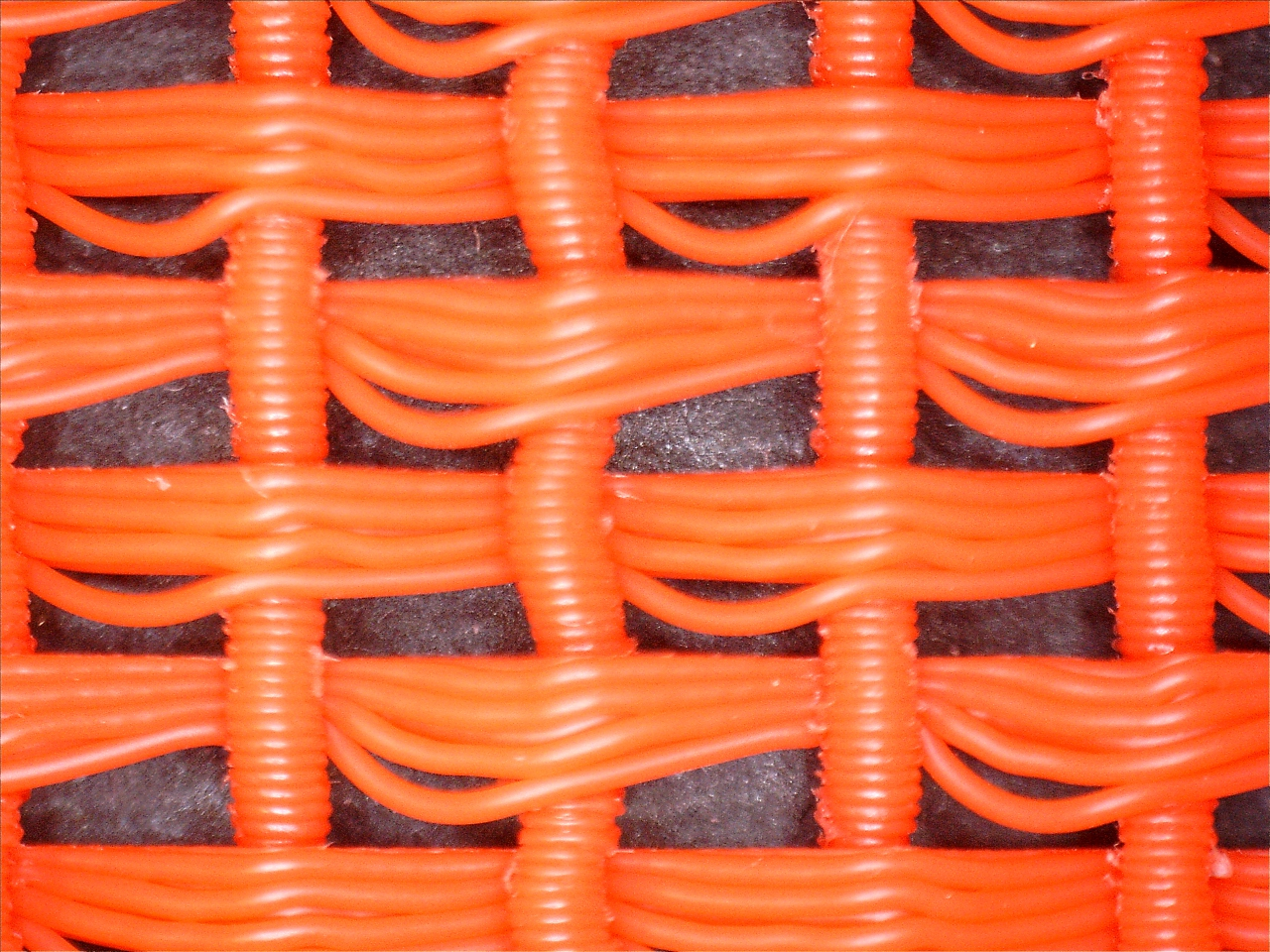 Image of a textile fabric made using 3D printing techniques. The fabric has fibrous appearance and good bending and shearing characteristics.The fabric is made by Leonie Nora Partsch.